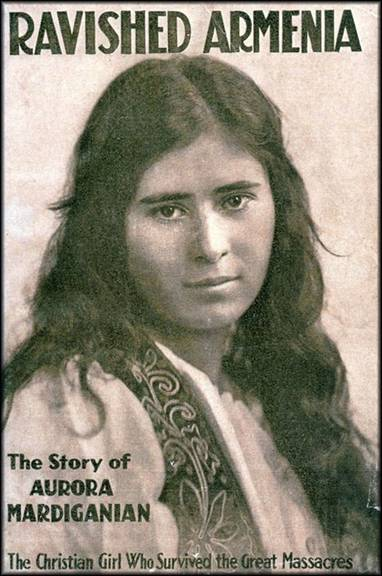 Cover of 1918 book "Ravished Armenia" showing Aurora Mardiganian